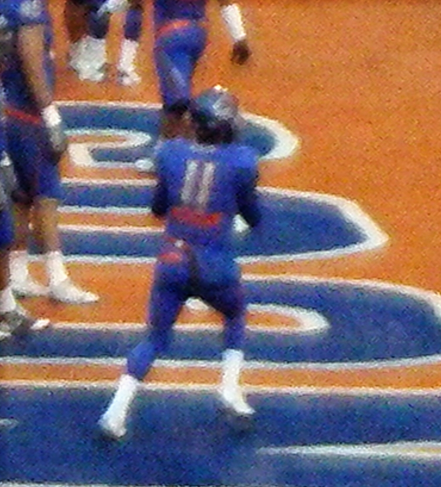 Kellen Moore during pregame warmups before the Boise State vs UC Davis game at Bronco Stadium in Boise, ID on 10/3/2009